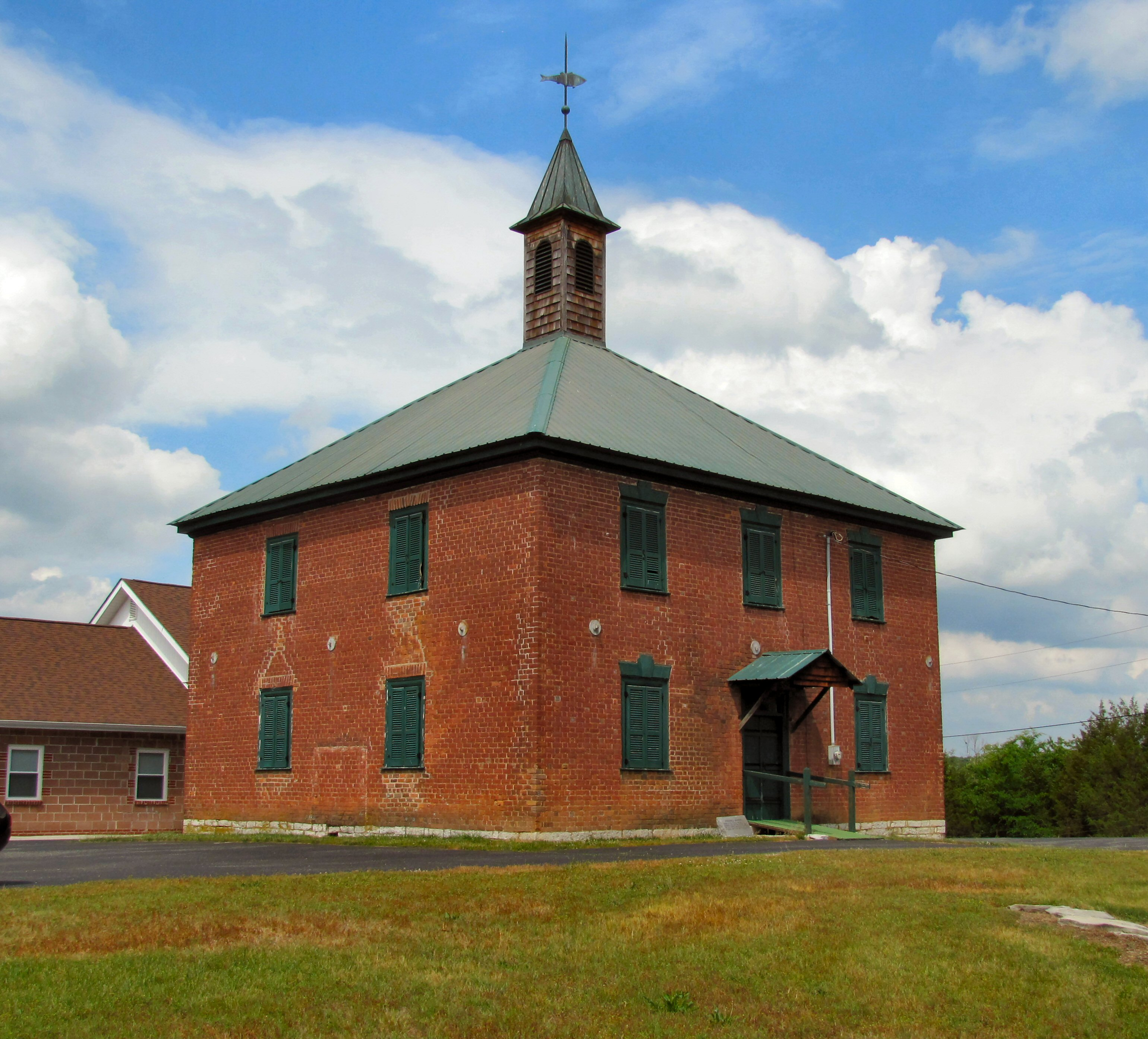 The old Speedwell Academy, also called the Powell Valley Male Academy. Built by Sam Monday in 1827, this structure is now listed on the National Register of Historic Places.